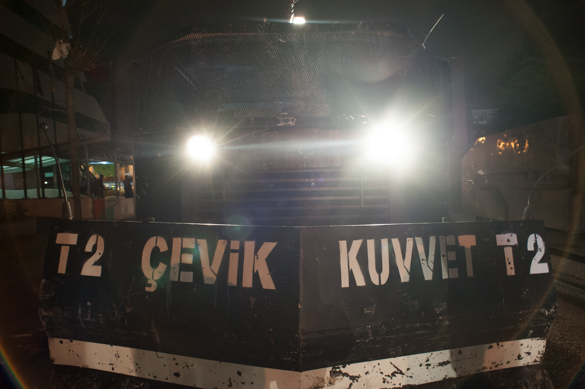 Police action during protests in Ankara. Events of June 7-8, 2013.